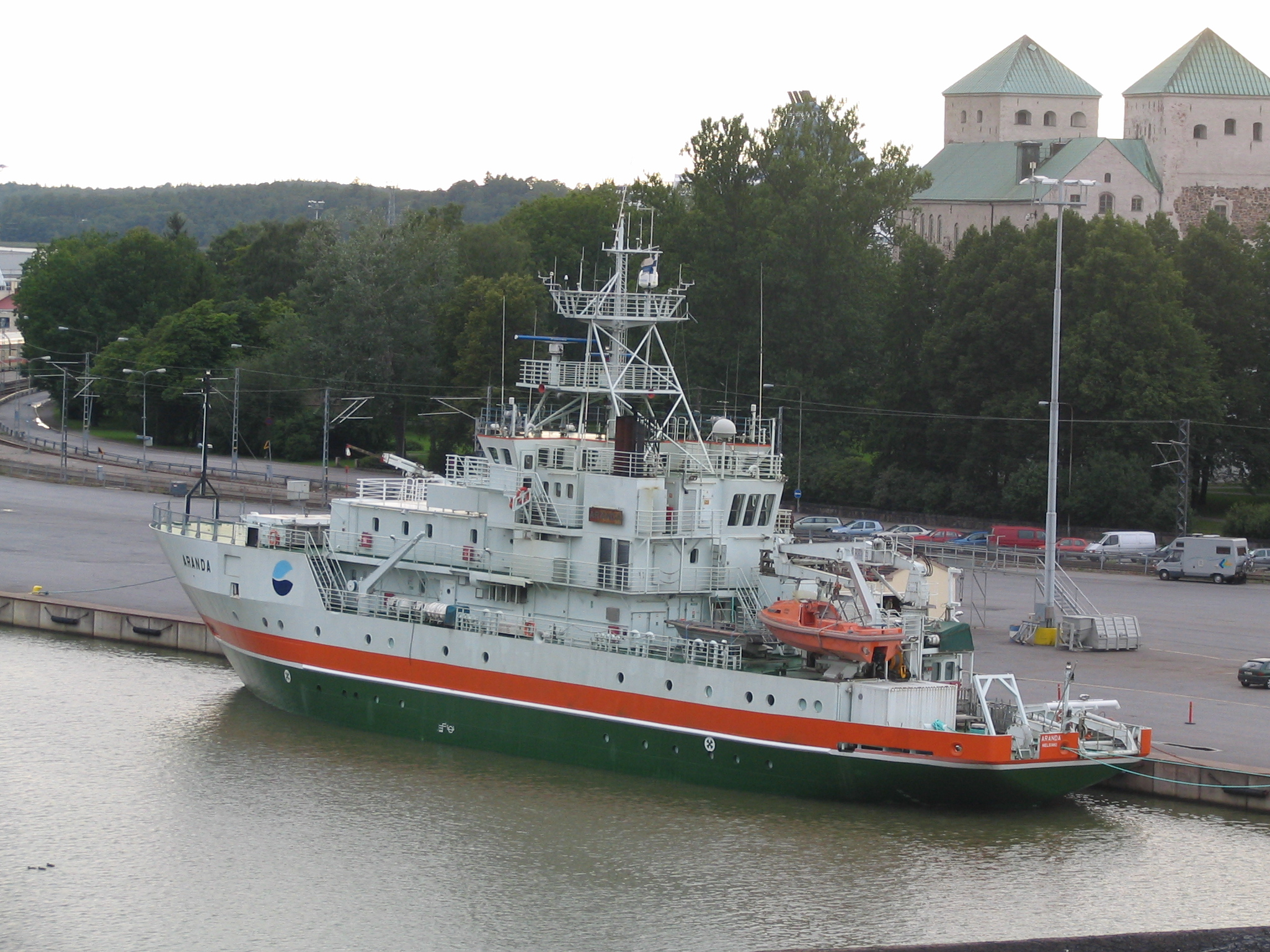 S/s Aranda in Aura River near Turun Linna IMO Number: 8802076 MMSI Number: 230145000 Callsign: OIRY Length: 60 m Beam: 14 m